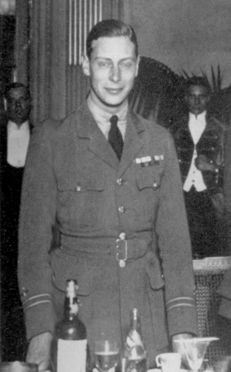 HRH Prince Albert at the Independent Air Force Dinner on 14 July 1919 at the Savoy Hotel, London. Albert is wearing the insignia of the rank of captain.